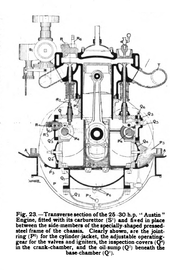 1906 Austin 25-30 engine transverse section